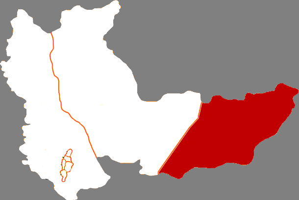 Location of Suibin County in Hegang City, China